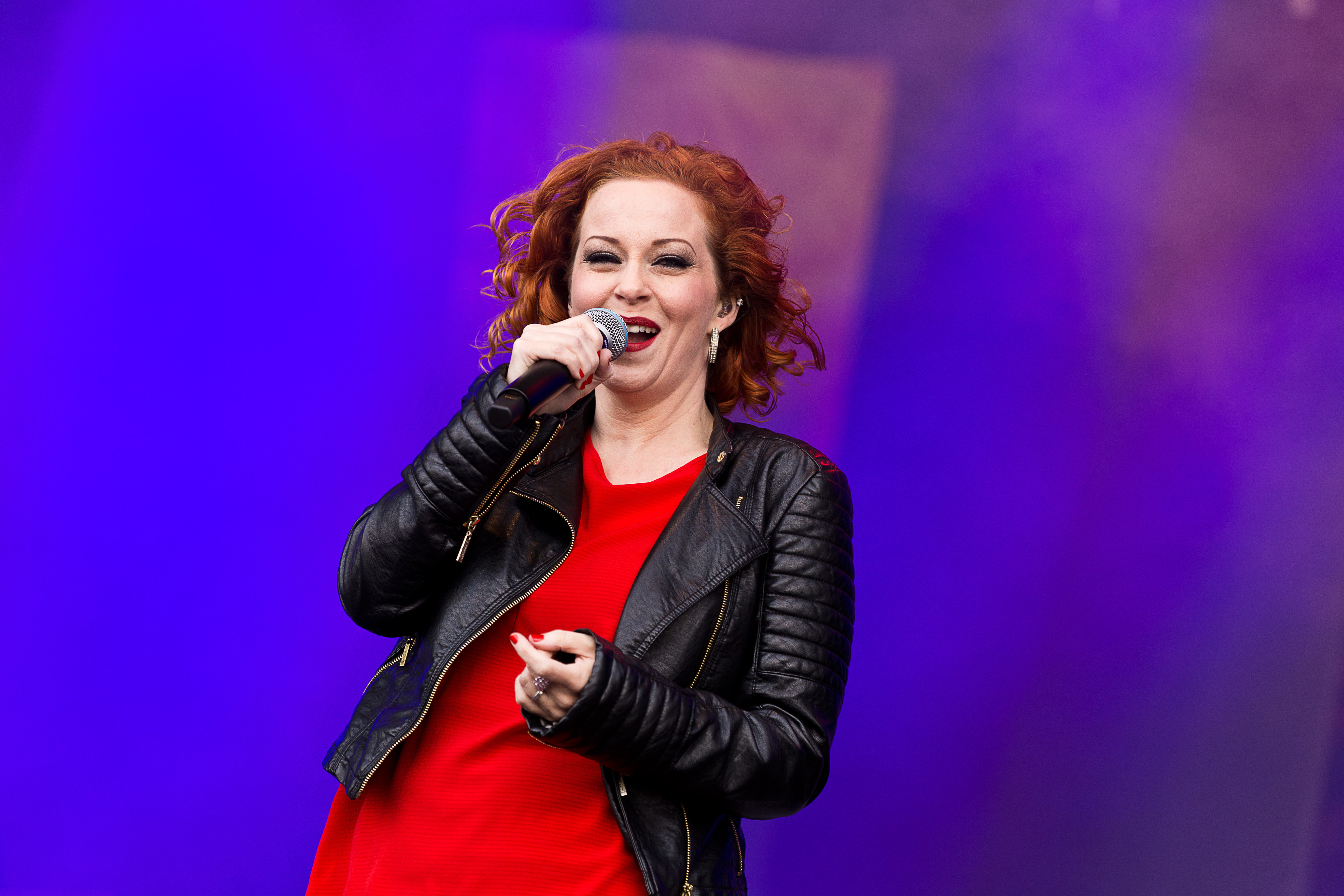 The Dutch progressive metal band The Gentle Storm at the Rockharz Open Air 2015 in Ballenstedt/Germany.